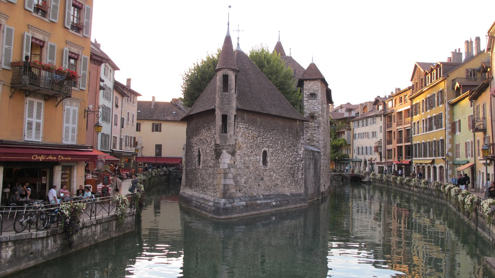 Annecy, France